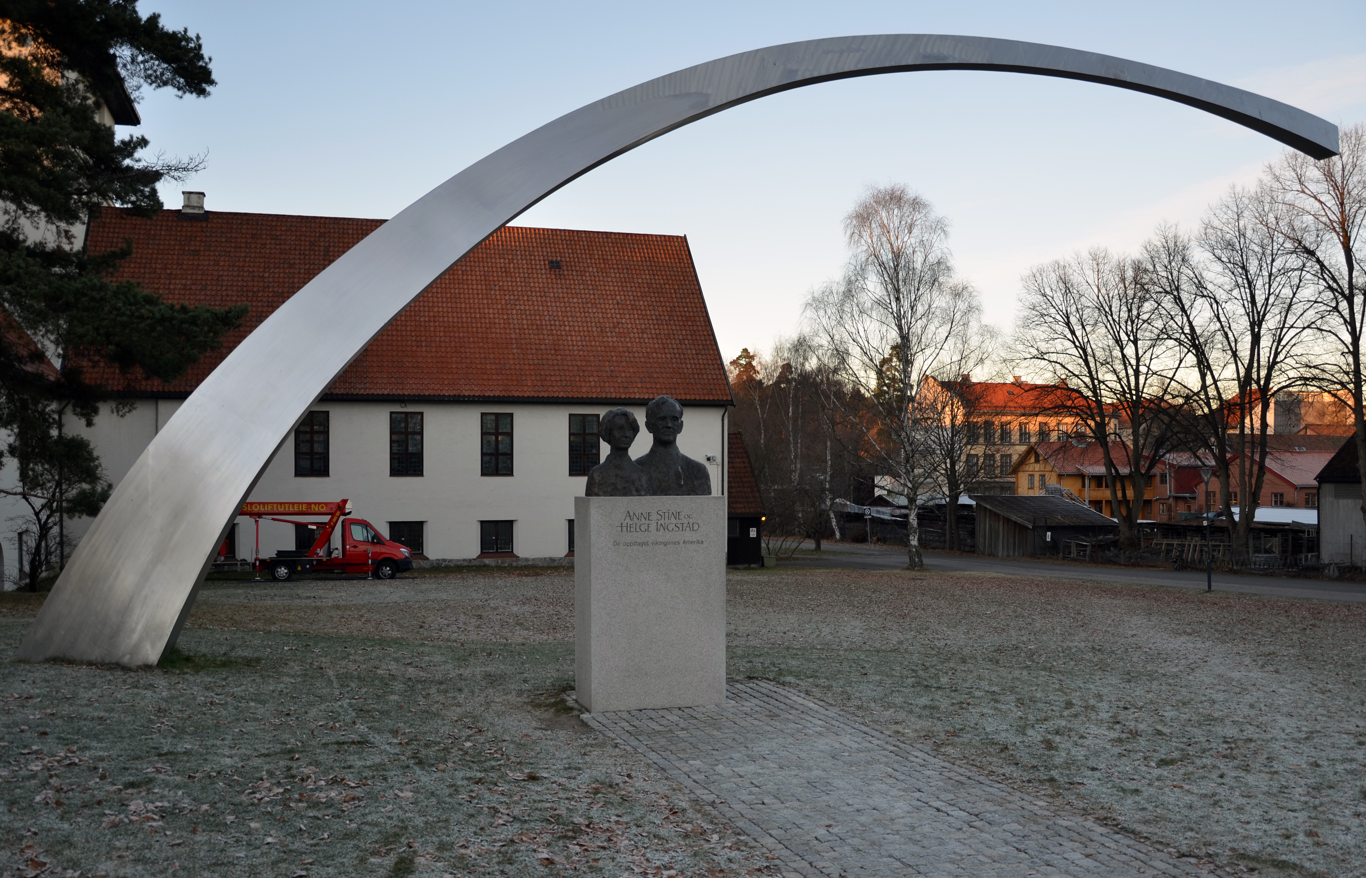 Memorial bust to the Norwegian explorer Helge Ingstad and archaeologist Anne Stine Ingstad, located outside the Viking Ship Museum.